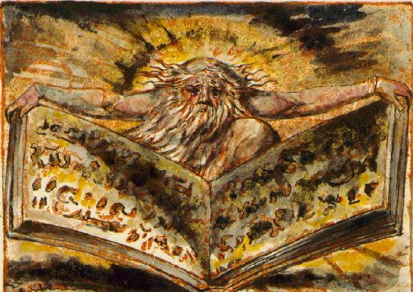 William Blake: Urizen with the Book. Detail of 3rd plate of the Book of Urizen. c. 1796